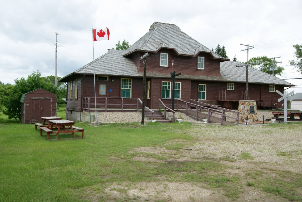 Theodore railway station - now a museum